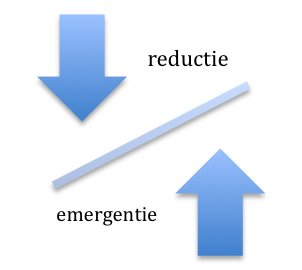 reduction and emergence are complementary